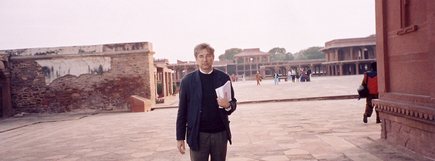 Orhan Pamuk, turkish novelist.